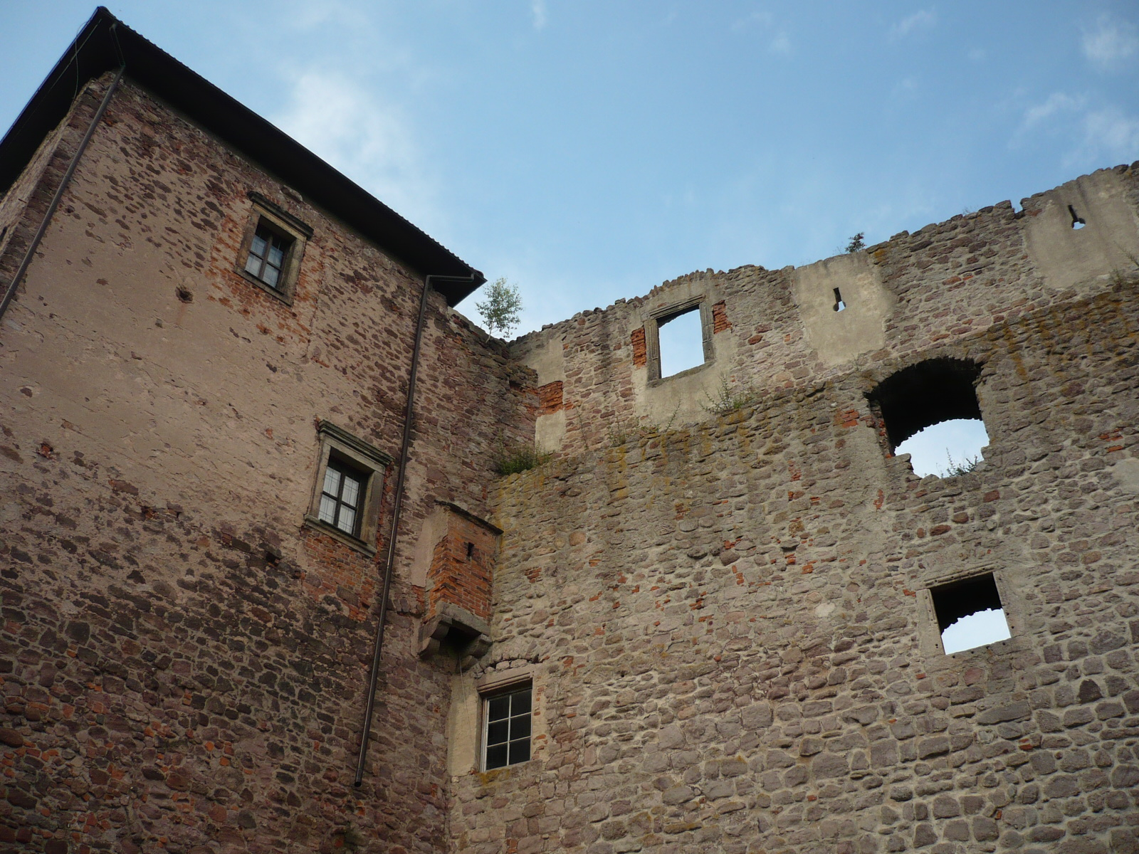 Pecka Castle, district Jicin, Czech Republic